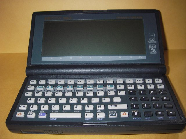 HP 200Lx I took this picture. Let me know if others are needed. -- Sy / (talk) 16:07, 19 Jun 2005 (UTC)